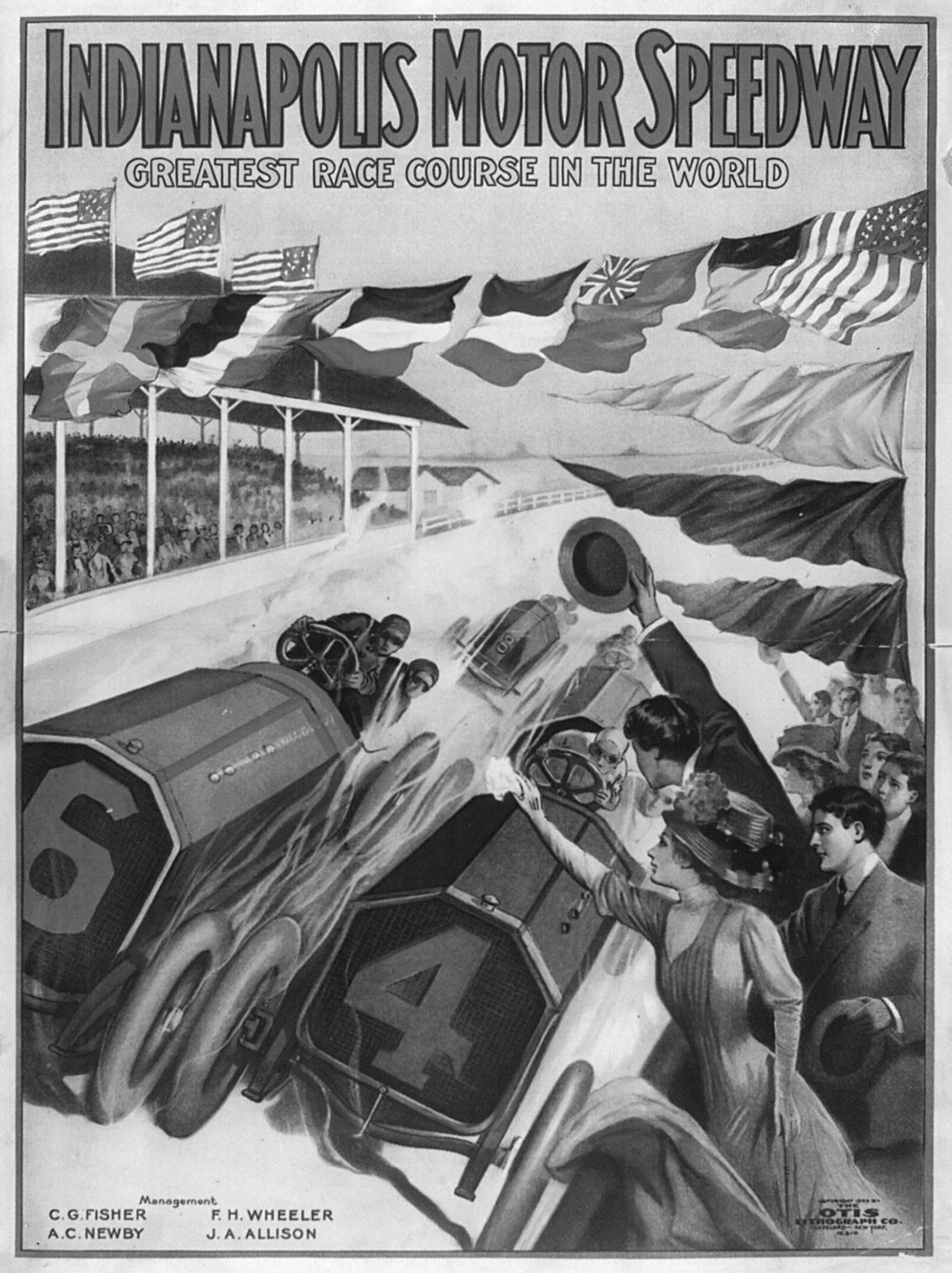 "Indianapolis Motor Speedway, greatest race course in the world." Black and white print of chromolithograph poster, 70.3 x 52.8 cm (sheet). Bibliographic information on Library of Congress site: TITLE: Indianapolis Motor Speedway, greatest race course in the world CALL NUMBER: POS - US .O85, no. 1 (C size) [P&P] REPRODUCTION NUMBER: LC-USZC4-13593 (color film copy transparency) LC-USZ62-73814 (b&w film copy neg.) RIGHTS INFORMATION: No known restrictions on publication. SUMMARY: Poster shows dramatic race scene with automobiles on race track and spectators leaning over railing of grandstands, also shows international flags strung across the track. MEDIUM: 1 print (poster) : chromolithograph ; 70.3 x 52.8 cm (sheet) CREATED/PUBLISHED: Cleveland ; New York : Otis Lithograph Co., c1909. CREATOR: Otis Lithograph Co., copyright claimant, lithographer, publisher. NOTES: Title from item. Management: C.G. Fisher, A.C. Newby, F.H. Wheeler, J.A. Allison. Copyright 1909 by the Otis Lithograph Co., Cleveland - New York. SUBJECTS: Indianapolis Motor Speedway Corp.--1900-1910. Automobile racing--Ohio--1900-1910. Sports spectators--Ohio--1900-1910. Flags--1900-1910. FORMAT: Posters American 1900-1910. Chromolithographs Color 1900-1910. REPOSITORY: Library of Congress Prints and Photographs Division Washington, D.C. 20540 USA DIGITAL ID: (digital file from color film copy transparency) cph 3g13593 (digital file from b&w film copy neg.) cph 3b21097 CONTROL #: 2008675452